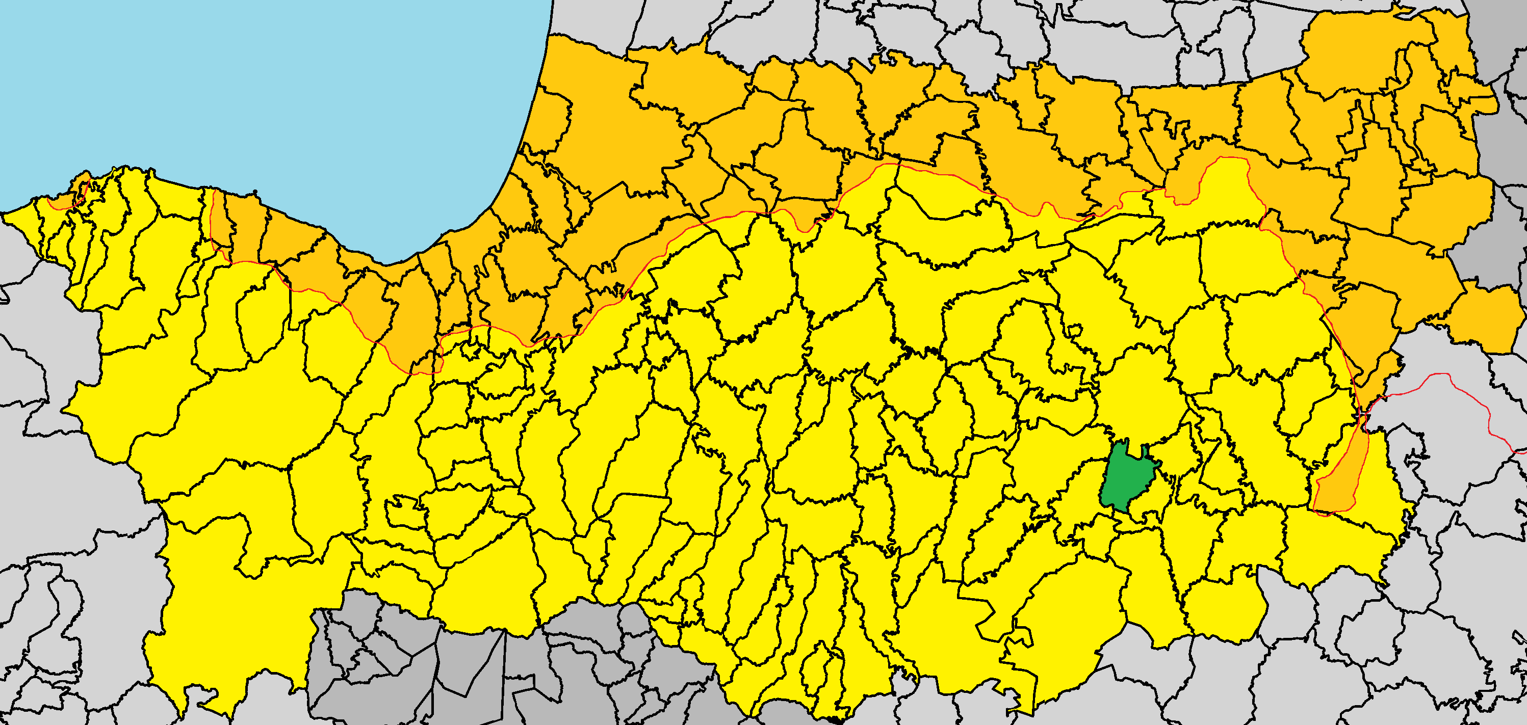 Margi in Nicosia District.